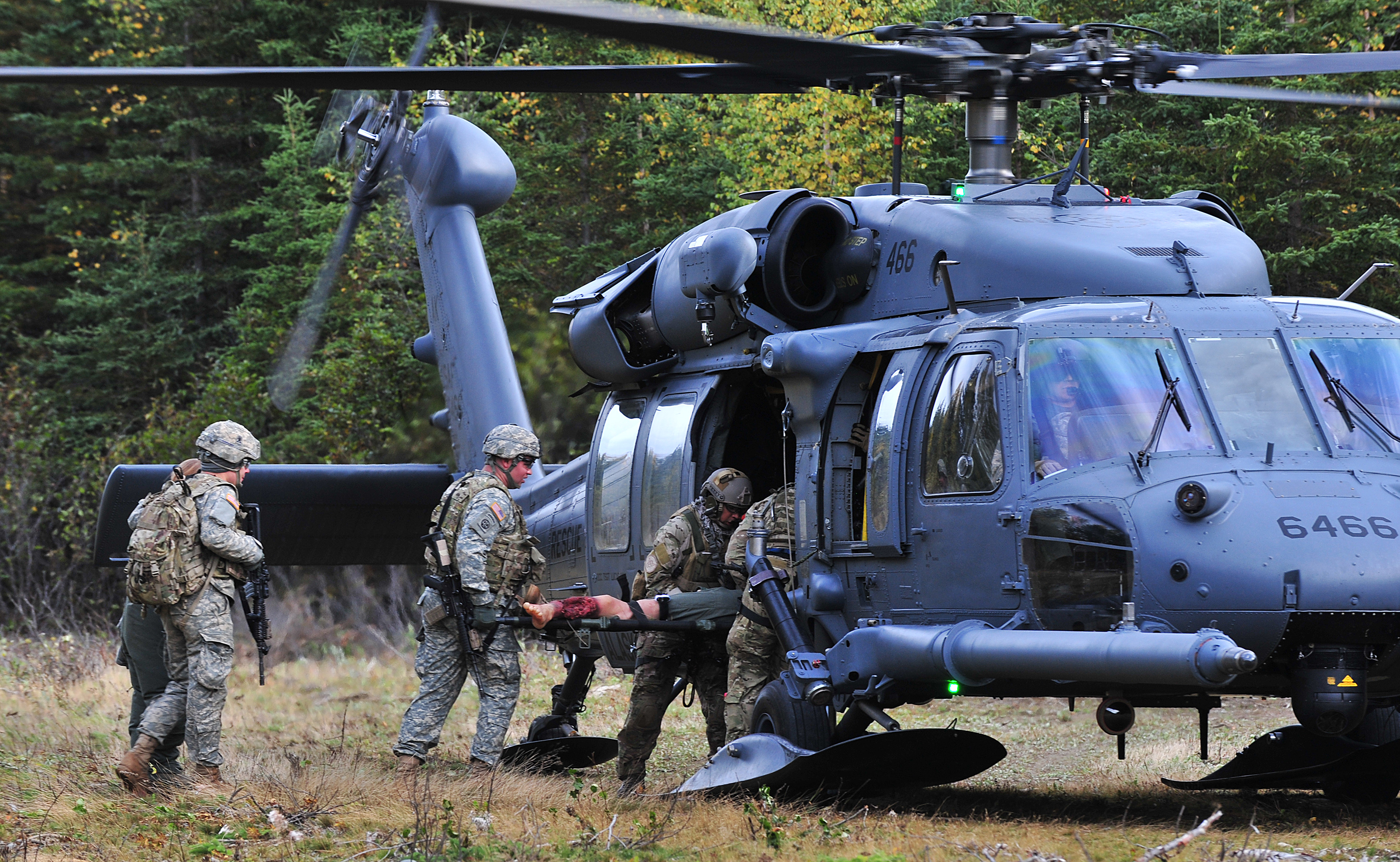 U.S. Air Force pararescuemen from the 212th Rescue Squadron and members of U.S. Army Baker Company, 3rd Platoon, 509th Infantry Regiment (Airborne), load a "casualty" into a U.S. Air Force HH-60G Pavehawk helicopter Sept. 21, 2011, during training on Joint Base Elmendorf-Richardson, Alaska. The training focused on quick care under fire and taught the Baker Company how to properly respond when pararescuemen arrive. (U.S. Air Force photo by Staff Sgt. Zachary Wolf)